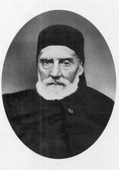 Stefan Bogoridi, was a high ranking Ottoman statesman of Bulgarian origin